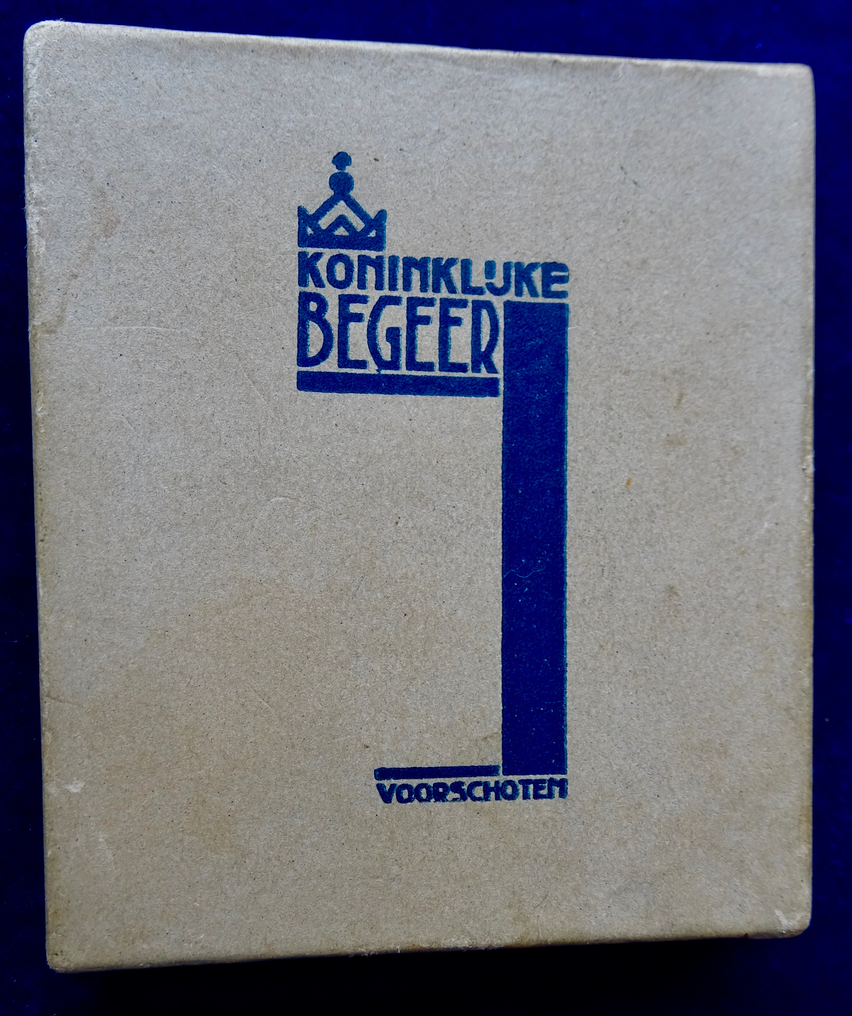 Netherlands, 1924 ND Judaica Plaque Medal Johann Wolfgang von Goethe by Ede Telcs. Bronze medallion 50 x 57 mm Goethe, Johann Wolfgang von 1749 Frankfurt am Main - 1832 Weimar Portrait l. above 1 line: "GOETHE"/ uniface. Förschner -; Huszár- ; Procopius Nr. 6168 Mint: Koninklijke Nederlandsche Edelmetaal Bedrijven Van Kempen, Begeer en Vos. "KONINKLUKE BEGEER VOORSCHOTEN" Medallist: Ede Telcs, Hungarian Jew, 1872 Baja (Hungary) - 1948 Budapest Condition: UNCIRCULATED in EXTEMELY FINE original Art Deco box of the issuing Dutch mint.